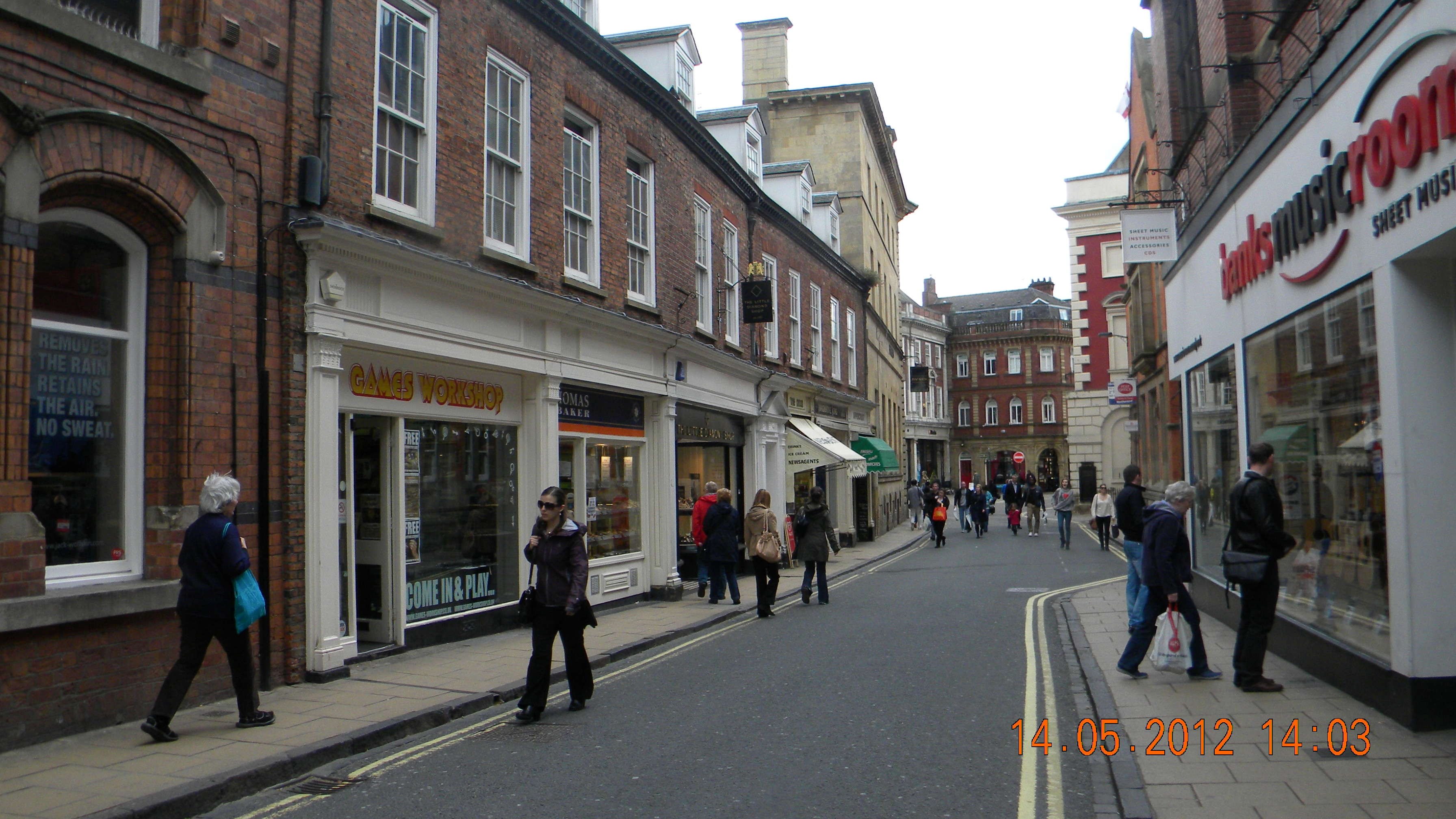 York Streets